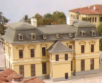 Сградата на първото кметство в Разград